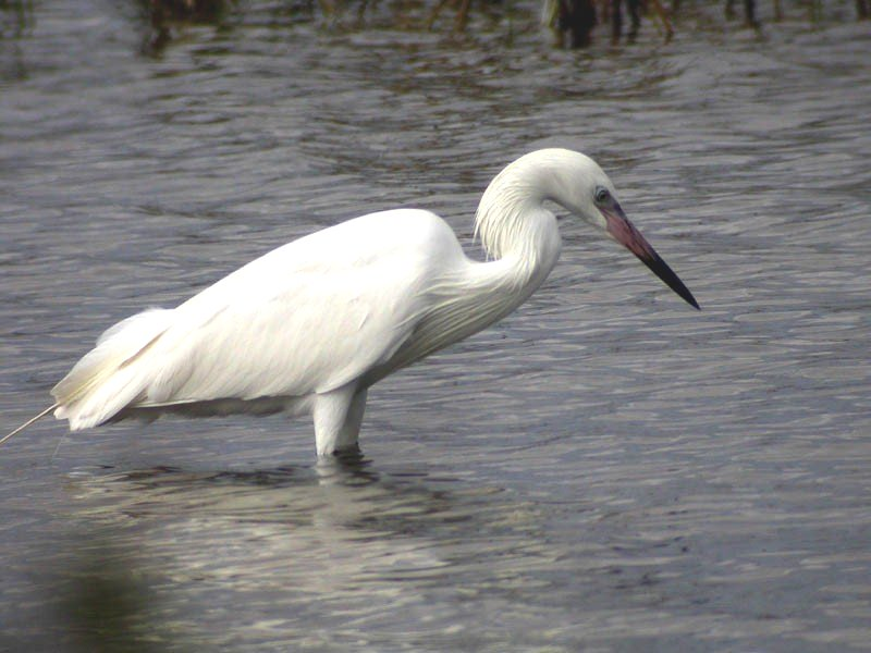 Hmmm. What have we here? This large white egret had us stumped for a bit, until a look at the books clearly showed that it was an adult white morph of the Reddish Egret (Egretta rufescens). Note the bicolored bill, reddish at the base and dark at the tip, along with shaggy neck plumes.